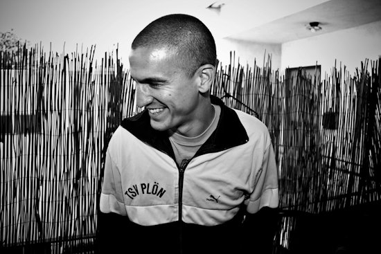 Wax hanging out before an interview in Los Angeles